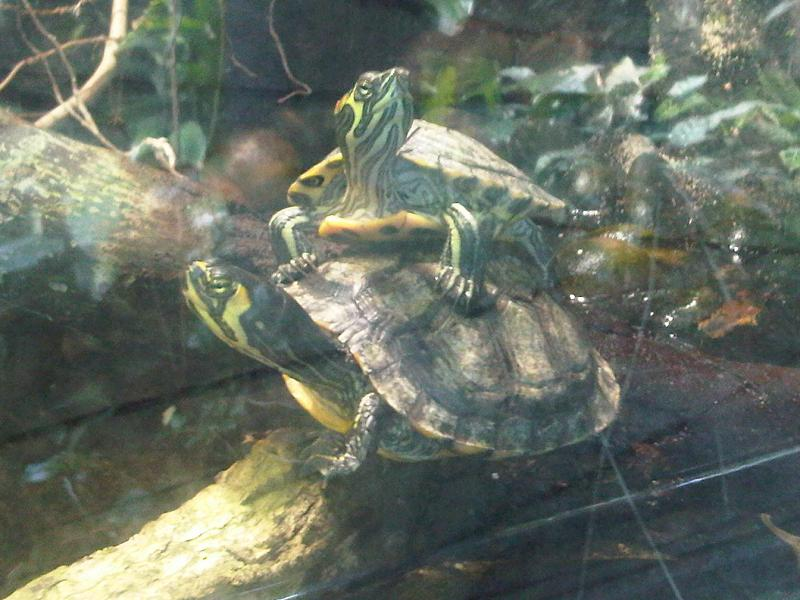 Pond sliders (Trachemys scripta) in Kew Gardens.